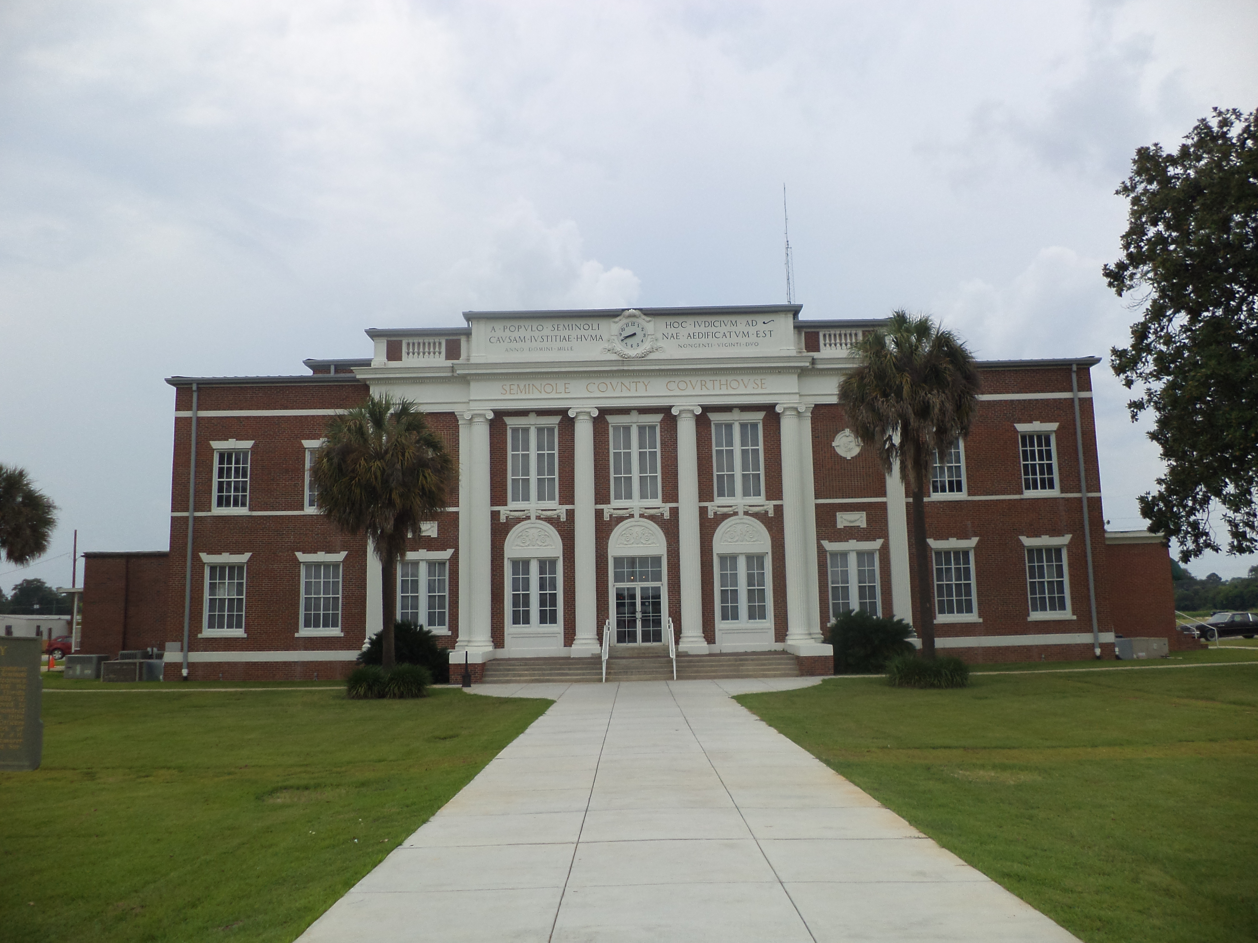 Seminole County Courthouse from parking lot, Donalsonville, Miller County, Georgia